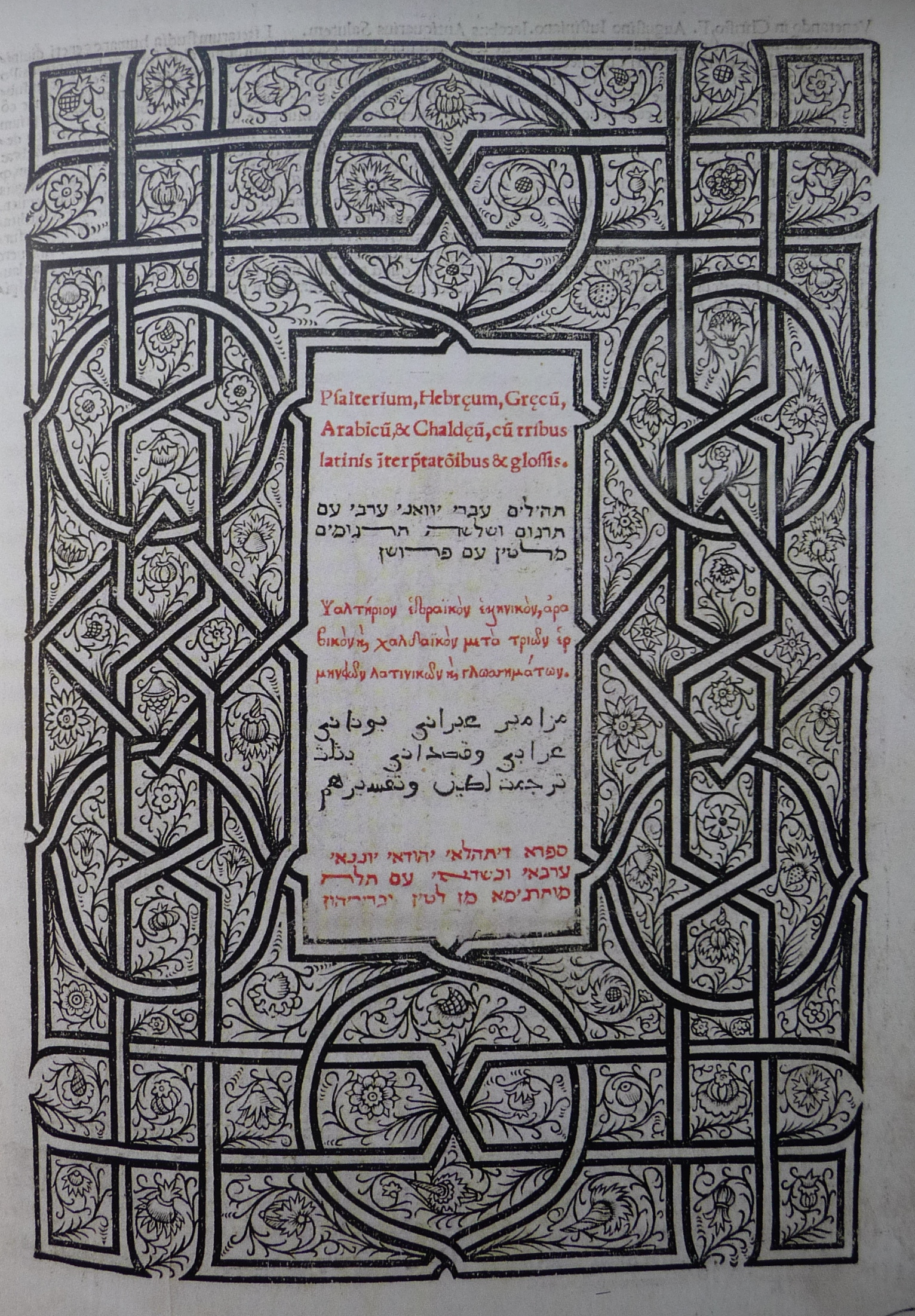 Biblia. Vicchiom testamente, salmi poliglotti, in latine, abraico, aramaico, arabo, greco. Genua 1516.